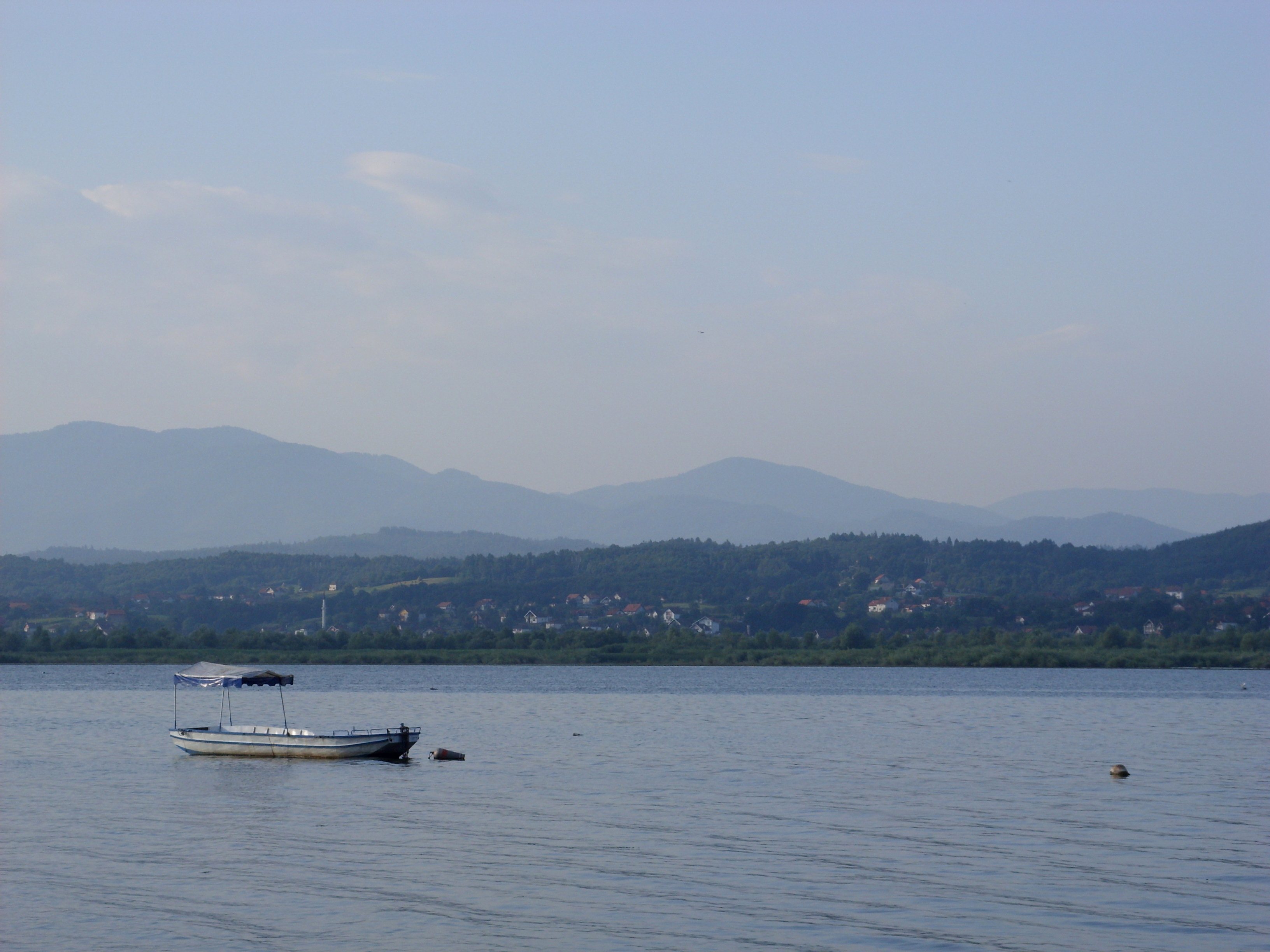 Lake Modrac west of Tuzla (Bosnia and Herzegovina).